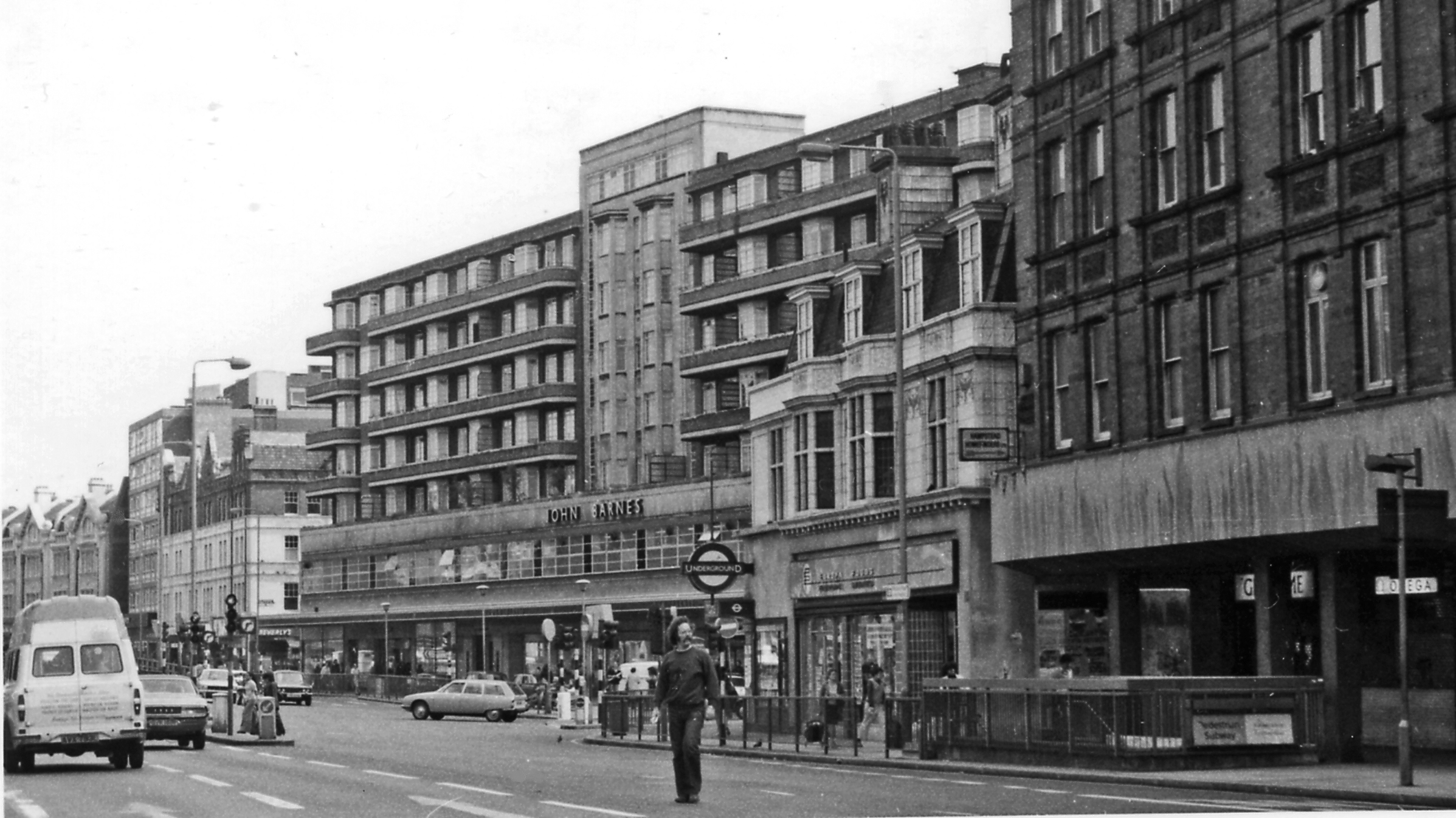 Exterior of Finchley Road Underground Station, just off Finchley Road (London NW3) View SE down the Finchley Road, towards Baker Street and the City on the Metropolitan Line; also Baker Street and Elephant & Castle on the Bakerloo Line from Wembley Park and Stanmore. With John Barnes' department store above, the station entrance is at the corner of Broadhurst Gardens with the main Finchley Road.